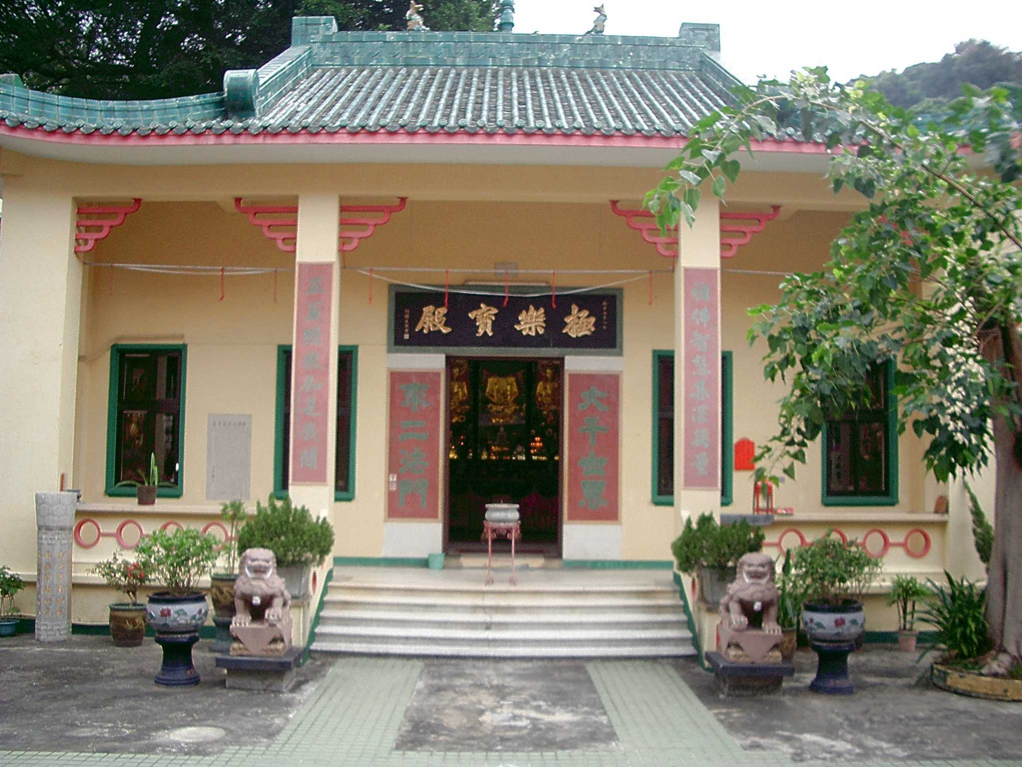 Main Hall of Tung Lum Nieh Fah Tong Fu Yung Shan Tsuen Wan Hong Kong